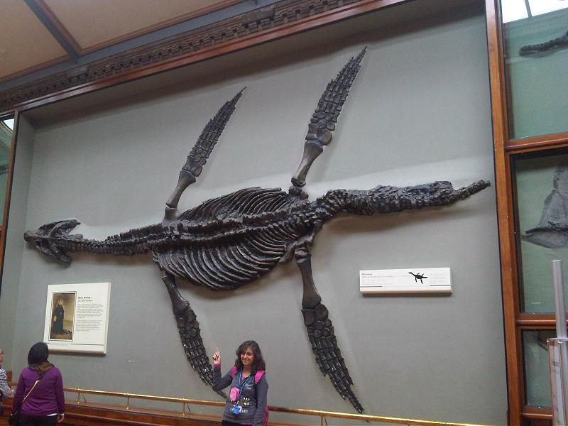 Rhomaleosaurus cramptoni reconstruction at the Natural History Museum in London.